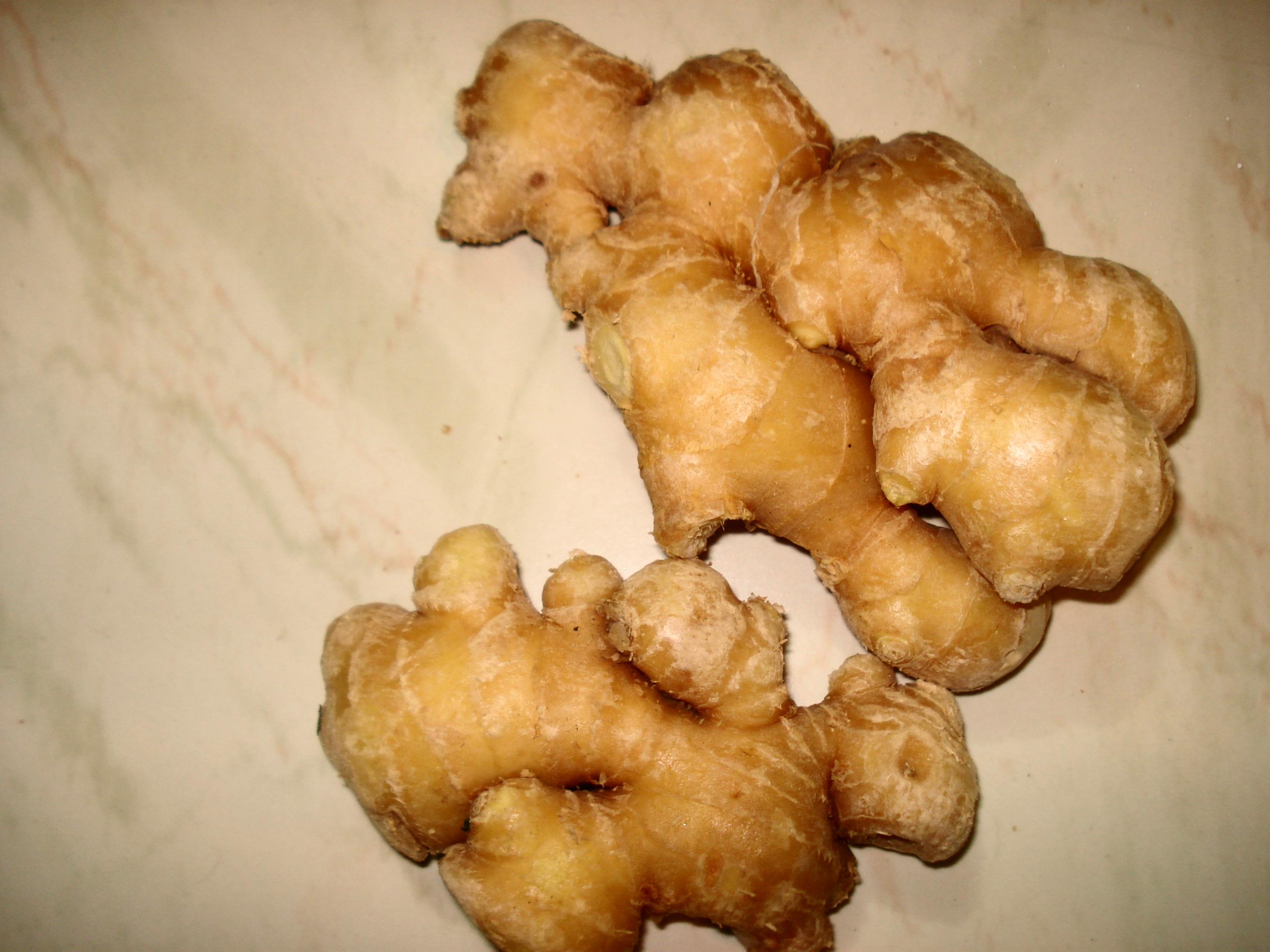 Adrak